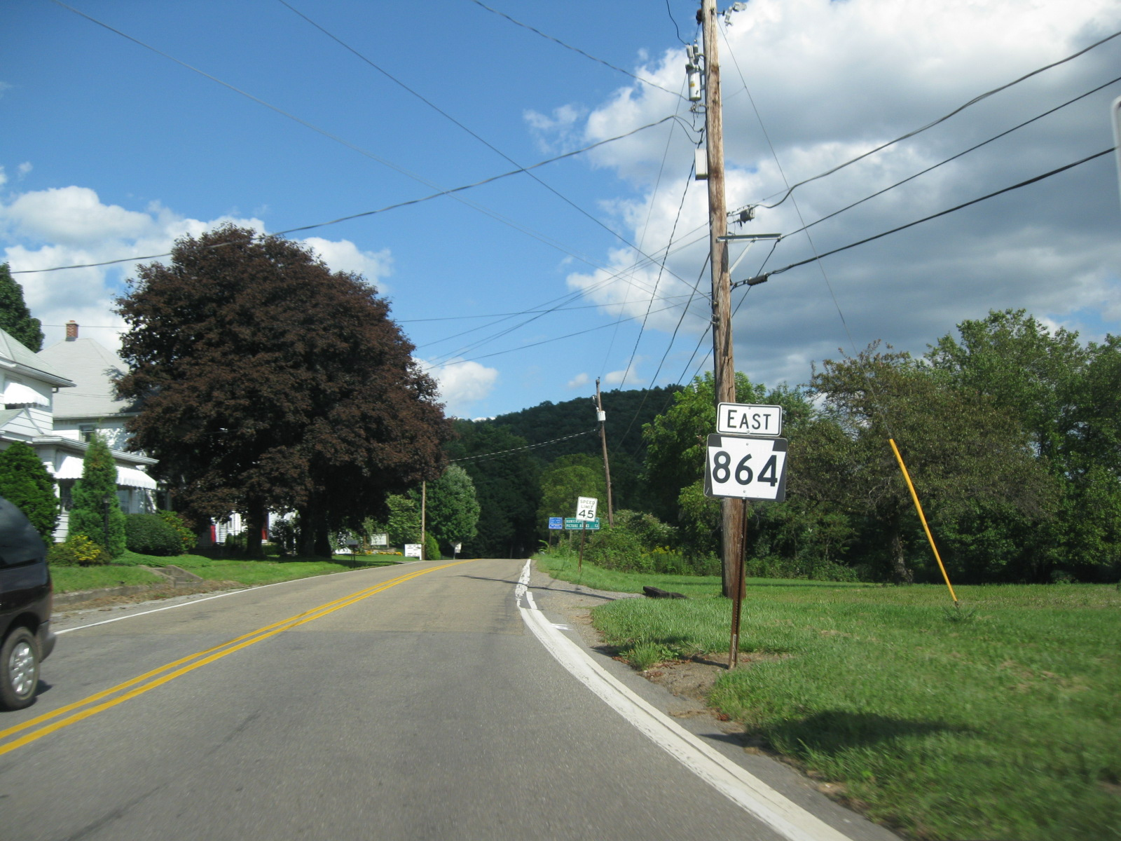 Pennsylvania State Route 864 heading eastbound from Route 87 in Farragut, Pennsylvania. Picture Rocks is 13 miles away according to the sign in the distance.